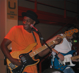 Marcus Miller playing at London's Jazz Café Fender Marcus Miller Jazz Bass Fuji-Roland/Greco G505 GR-Guitar Controller